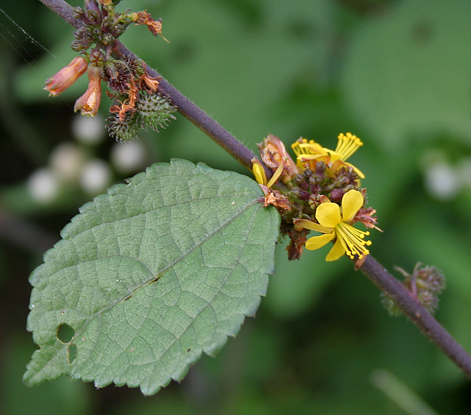 diamond burbark, burr bush, Chinese burr, hibiscus burr, Chiki Flowers Triumfetta rhomboidea in Narsapur, Andhra Pradesh, India.